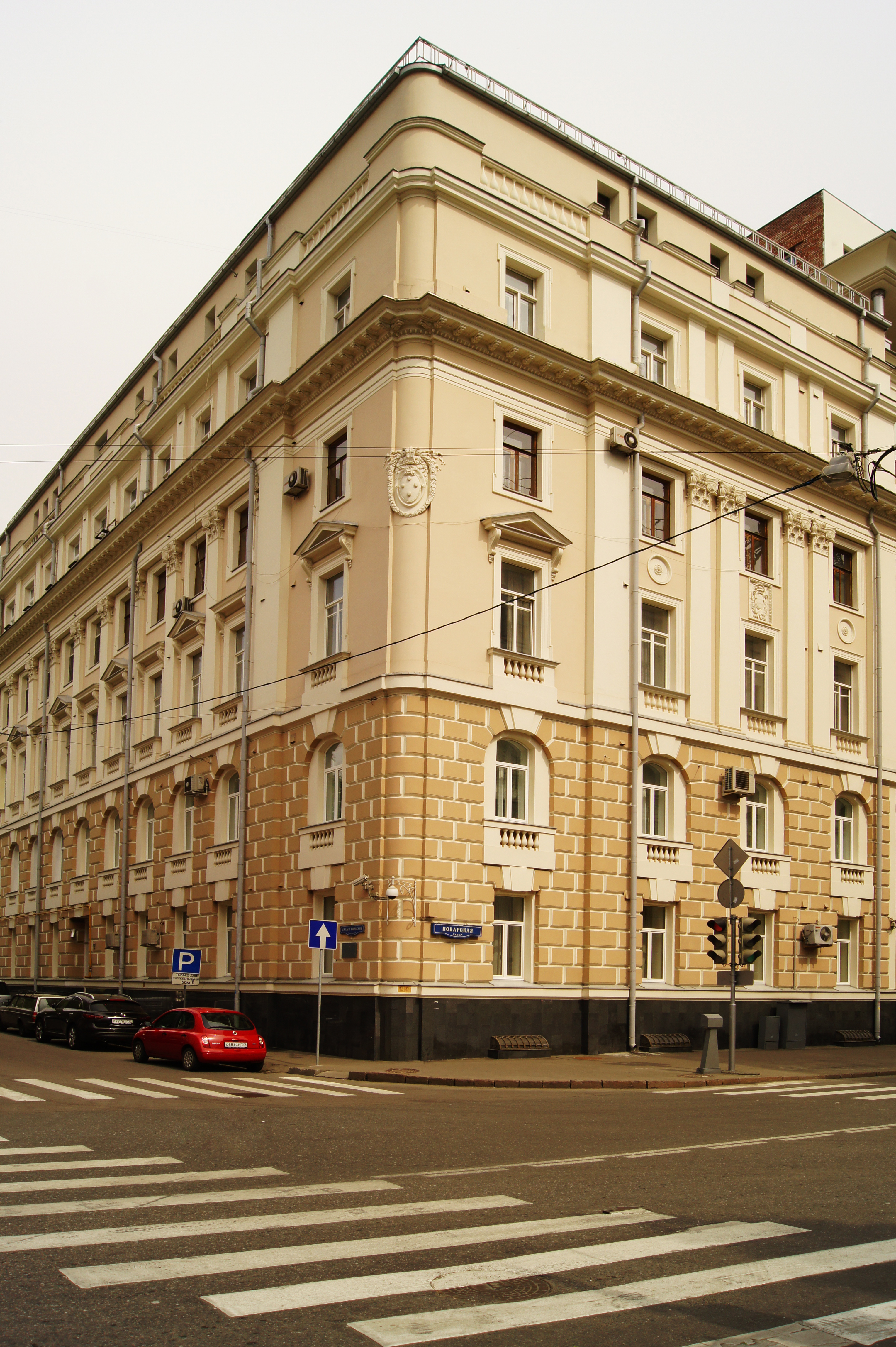 Povarskaya Street Moscow, 28 k1